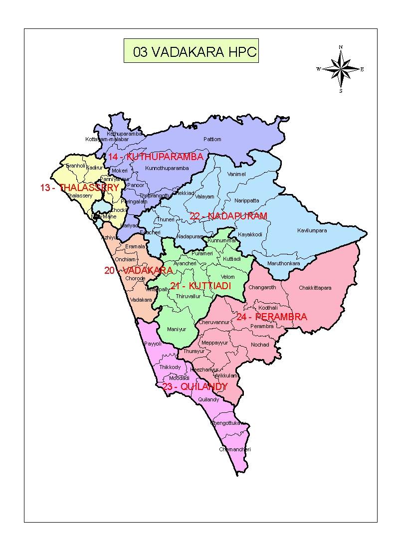 This is the map of Vatakara Lok Sabha Constituency